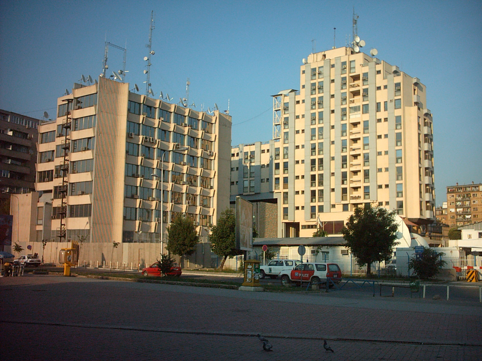 EULEX Head Quarters